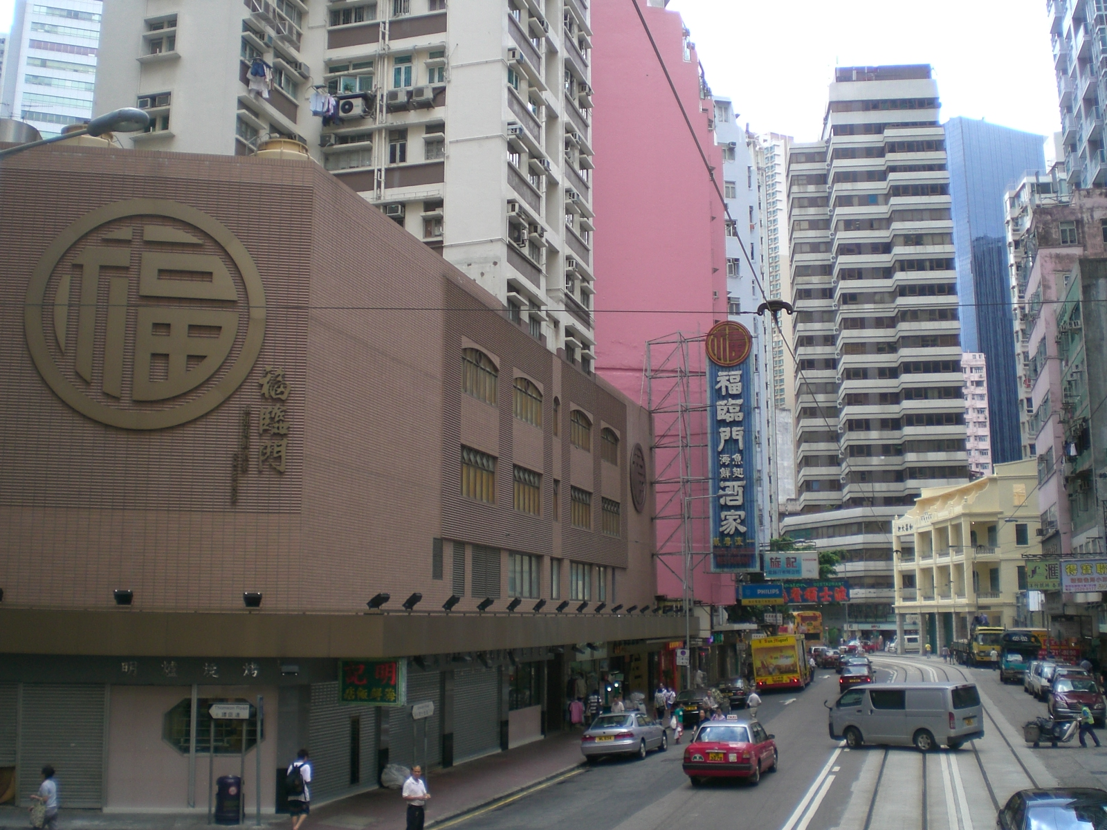 Fook Lam Moon Group 福臨門魚翅海鮮酒家, 香港zh:灣仔zh:莊士敦道 Author= A1 Wong East